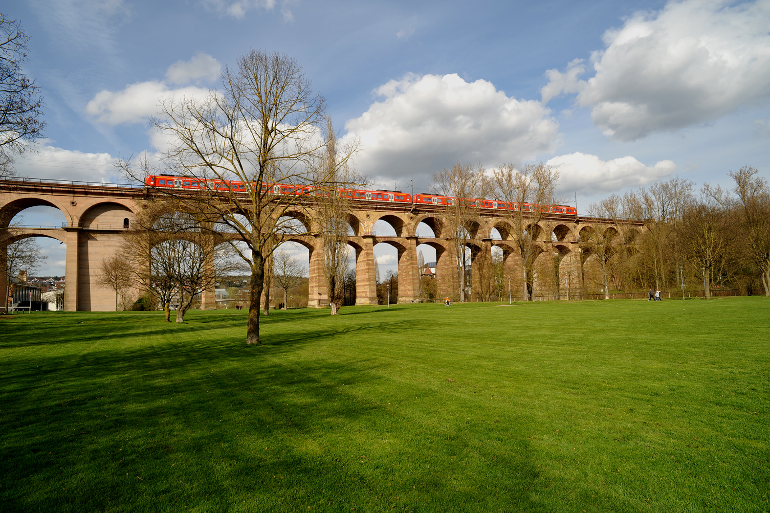 Bietigheim Enz Valley Bridge in Bietigheim-Bissingen; Baden-Württemberg, Germany.